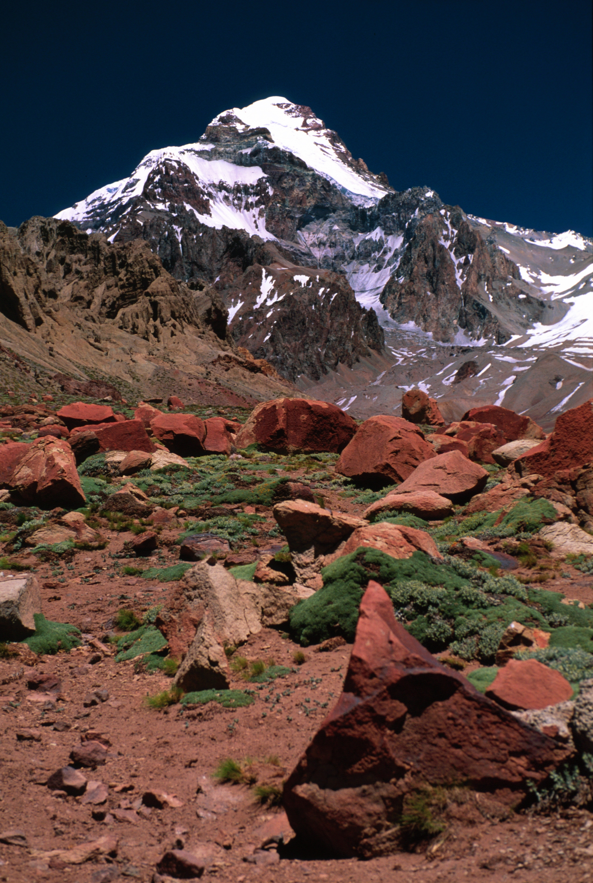 Aconcagua Mountain from base, Argentinaaconcagua